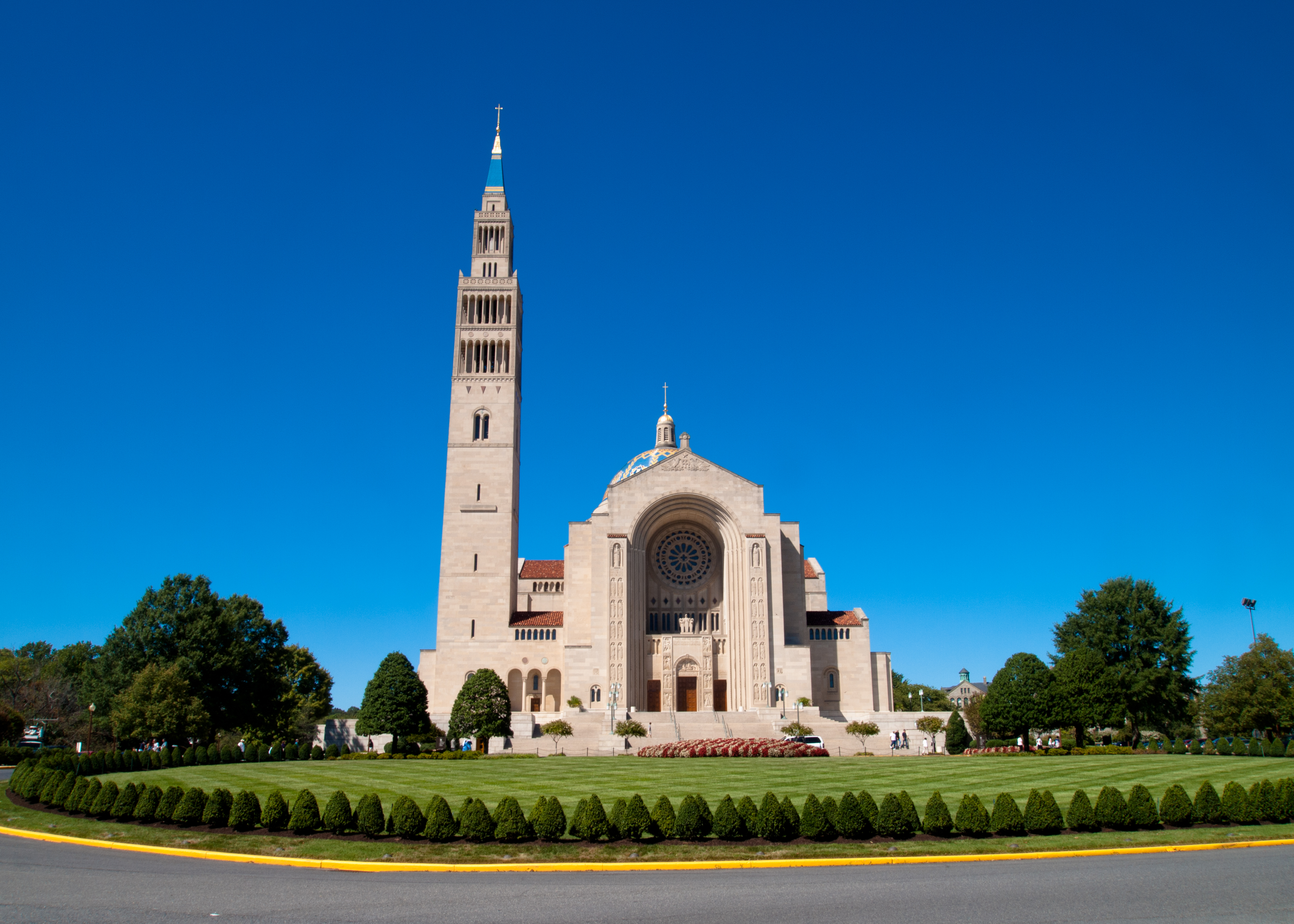 National Shrine in Brookland, Washington, DC